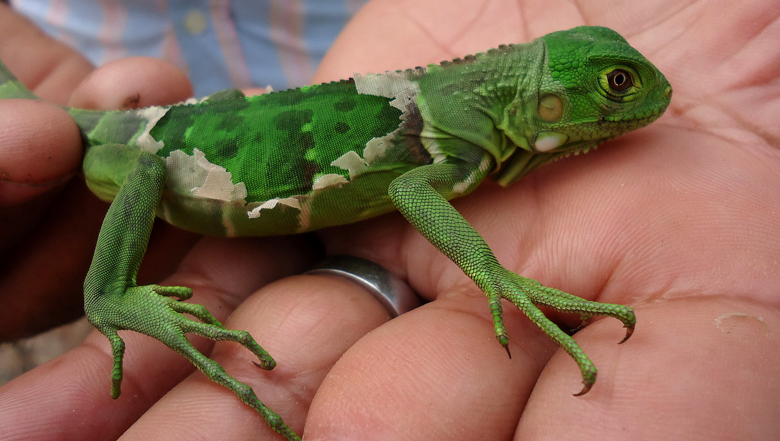 Juvenile Green iguana, Atlantic forest, northeastern Bahia, Brazil